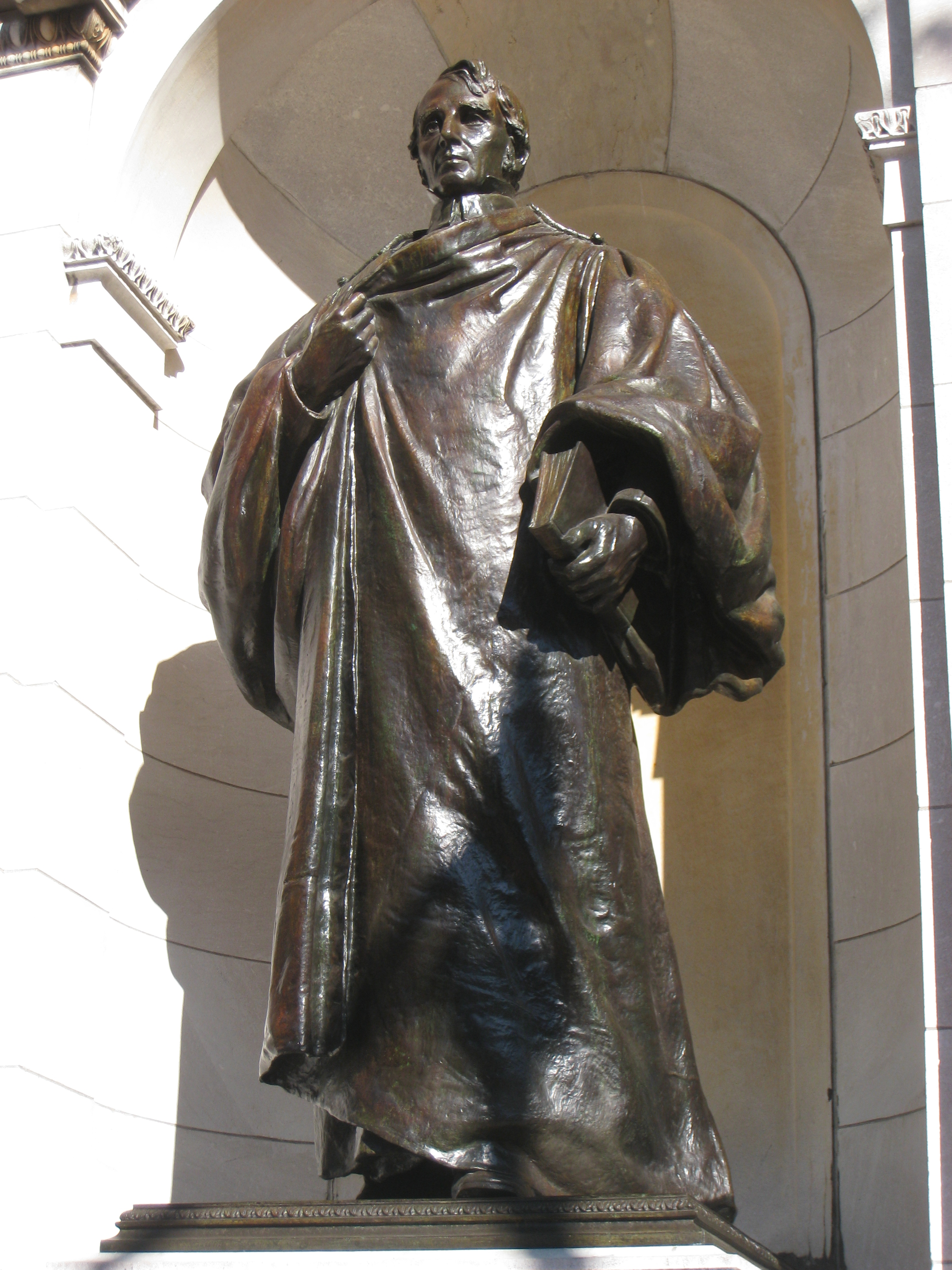 Statue of William Ellery Channing (1780-1842) by Herbert Adams (1858-1945), on the corner of the Public Garden, Boston, Massachusetts, USA. I took this photograph.